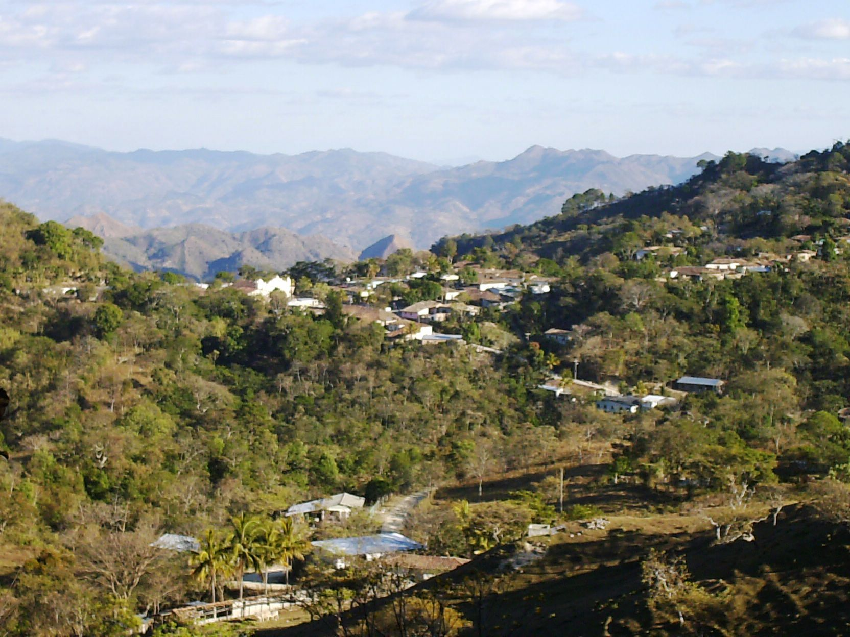 Piraera, municipality in the Honduran department of Lempira.